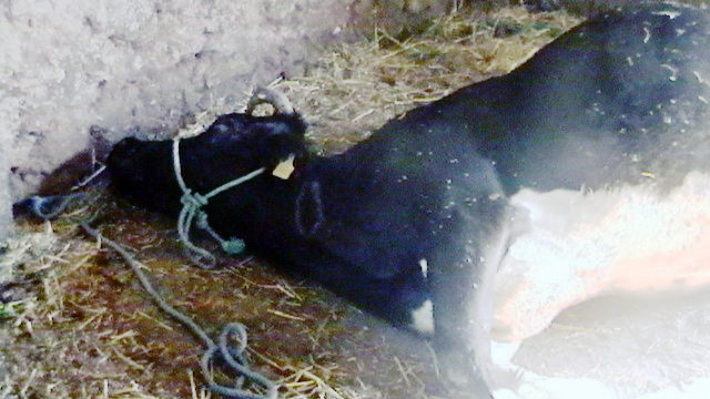 severe milk fever : lateral decubitus and opisthotonos